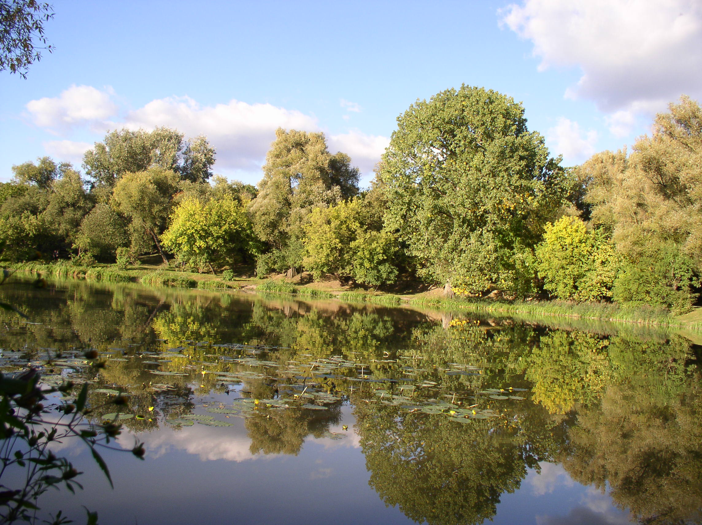 Pond in Loshytsa. Minsk, Belarus.